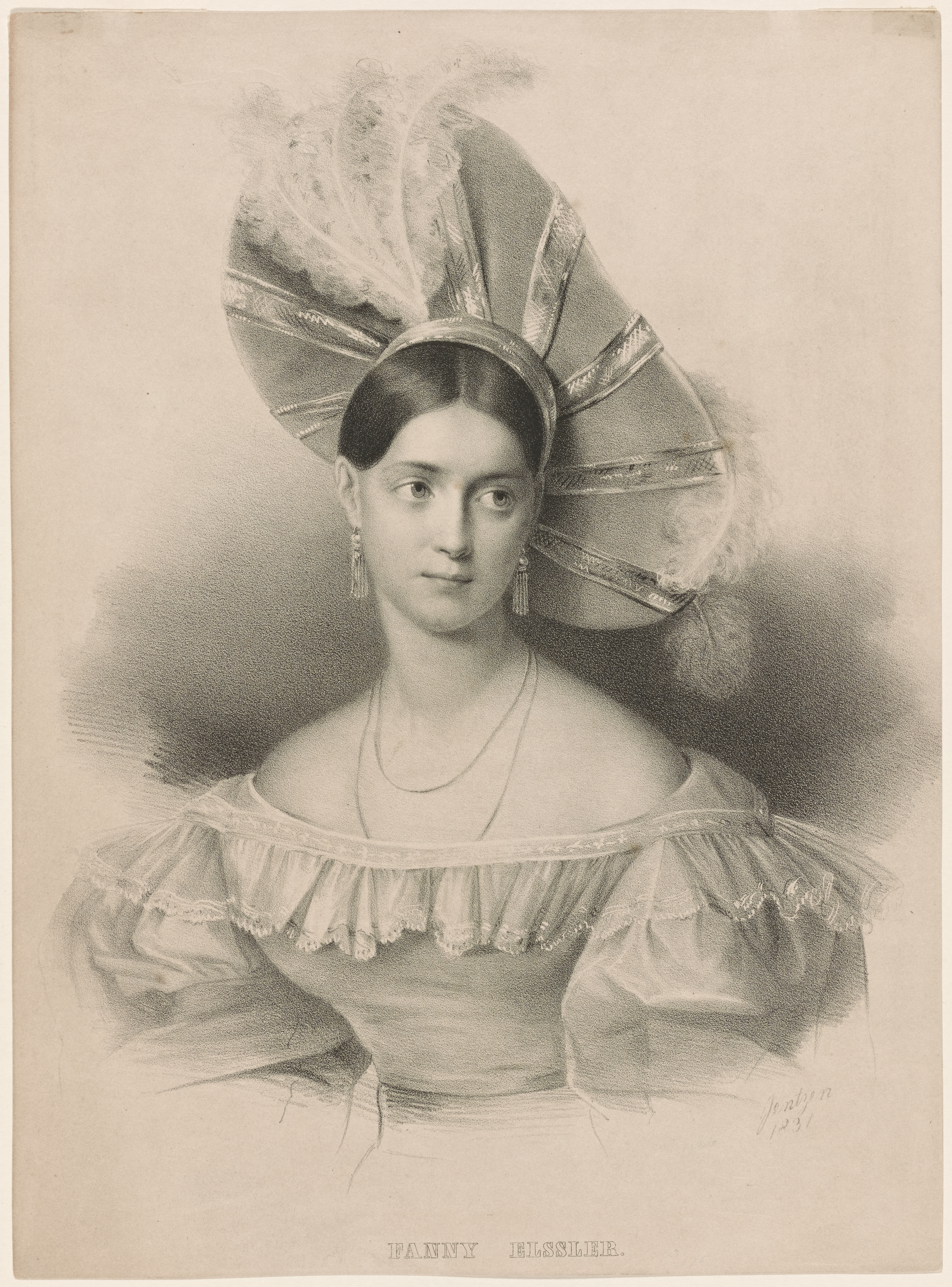 Half-length portrait to front, wearing an off-the-shoulder gown with large puff sleeves; a fine chain around her neck; a large hat with plumes on her head.